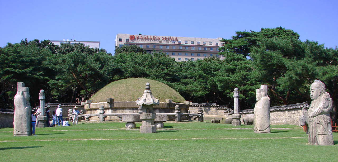 Seonjeongneung and Jeongneung is the burial grounds of two Joseon Dynasty kings and one Joseon queen. Seonjeongneung - Burial ground of King Seongjong, the ninth king of the Joseon dynasty.